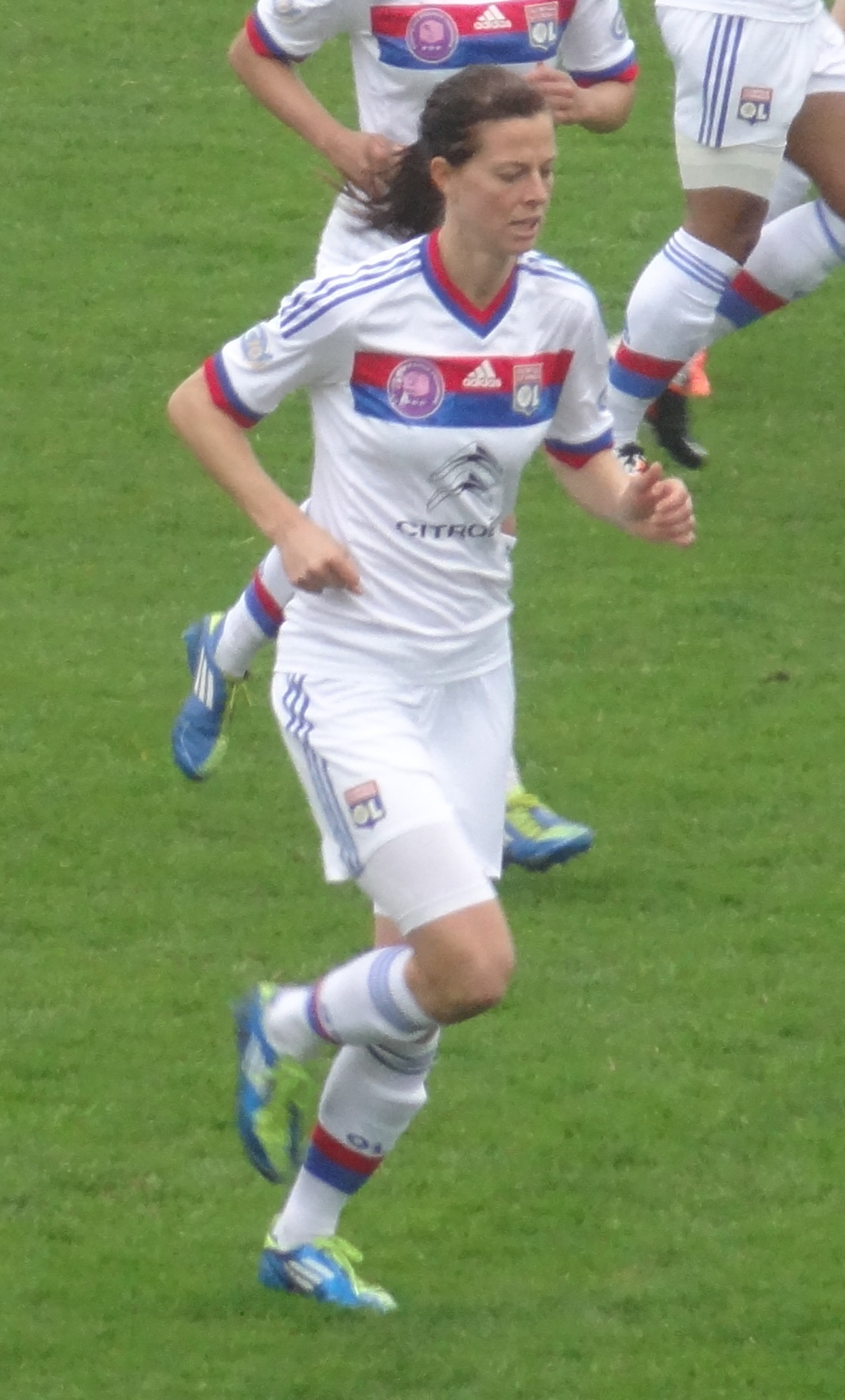 Lotta Schelin (Olympique Lyonnais)